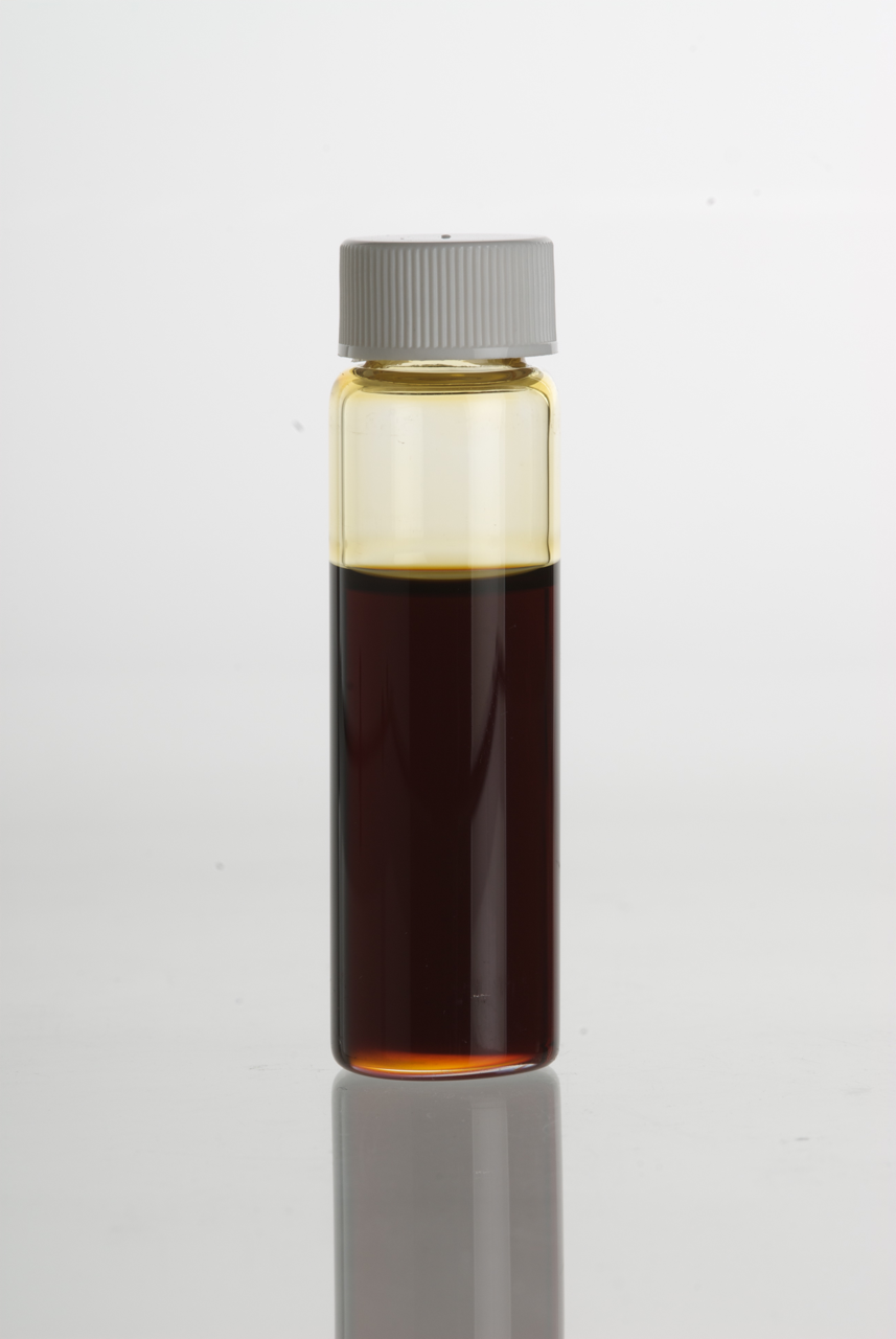 Jasmine (Jasminum officinale) Absolute in clear glass vial